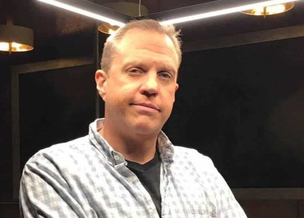 Doc Thompson with his signature snarky smile.